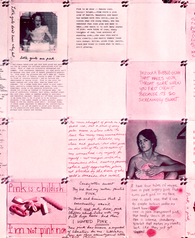 This is a detail of a poster created by Sheila de Bretteville in 1973. I scanned the poster myself. She gave permission for its use in the context of explaining her work. It is offered under a CC license with attribution required. Credit should be to Sheila Levrant de Bretteville. --Sue Maberry (talk) 20:25, 6 May 2010 (UTC)